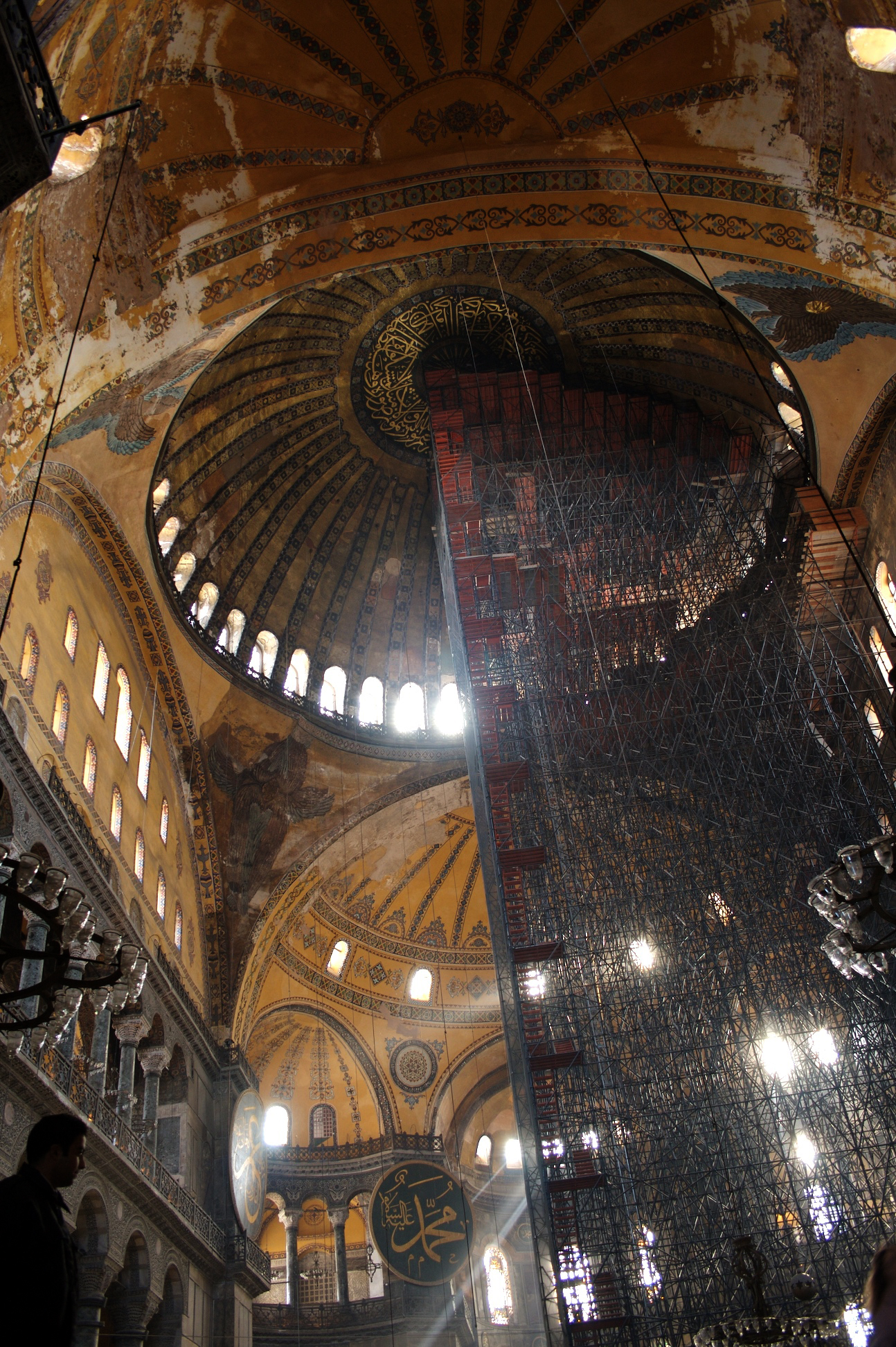 The dome of Hagia Sophia in Istanbul, seen from the inside.